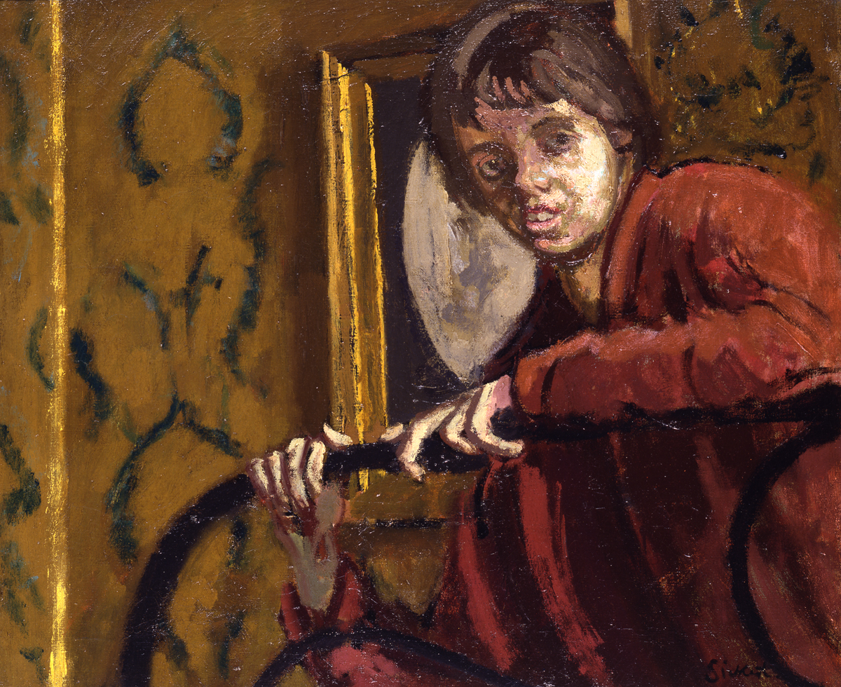 Sickert, Walter Richard; Cicely Hey; British Council Collection